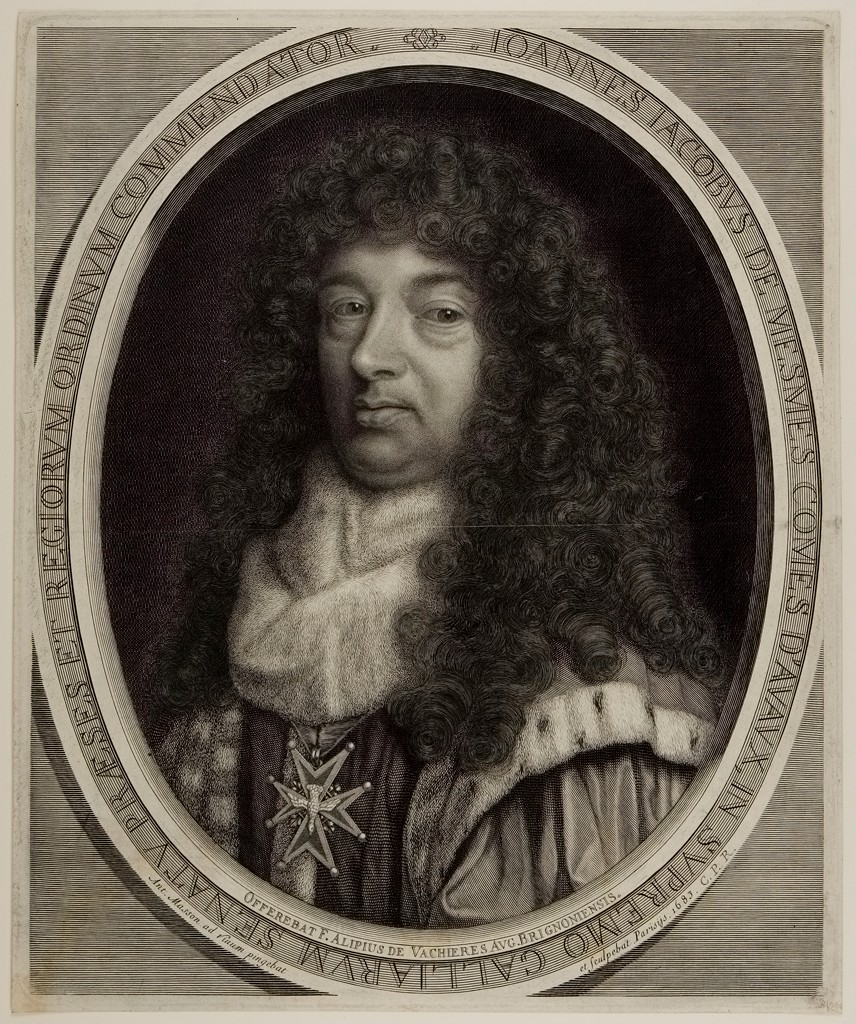 An engraving by Antoine Masson of Jean-Jacqies de mesmes, president à mortier du parlement de Paris